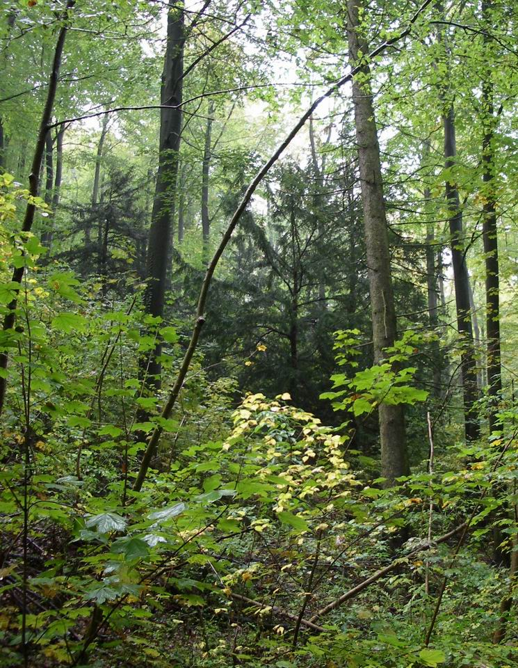 One of the last natural Yew forests in Germany. It is locatet in Lower Saxony, about 7 km north of the city of Goettingen. The area contains about 800 Yew trees on about 130.000 square meters.